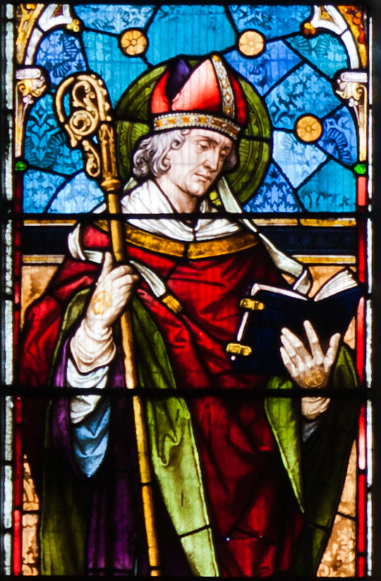 Detail of leftmost of the lower lights of the stained glass chancel window behind the altar (in the north wall), created by Mayer & Co. in 1886, depicting St. Colmán of Cloyne. Link to a detailed description